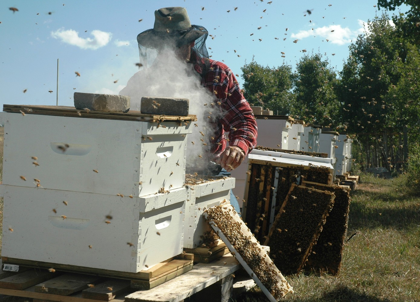 Beekeeper inspecting Langstroth bee hives in Alberta, Canada